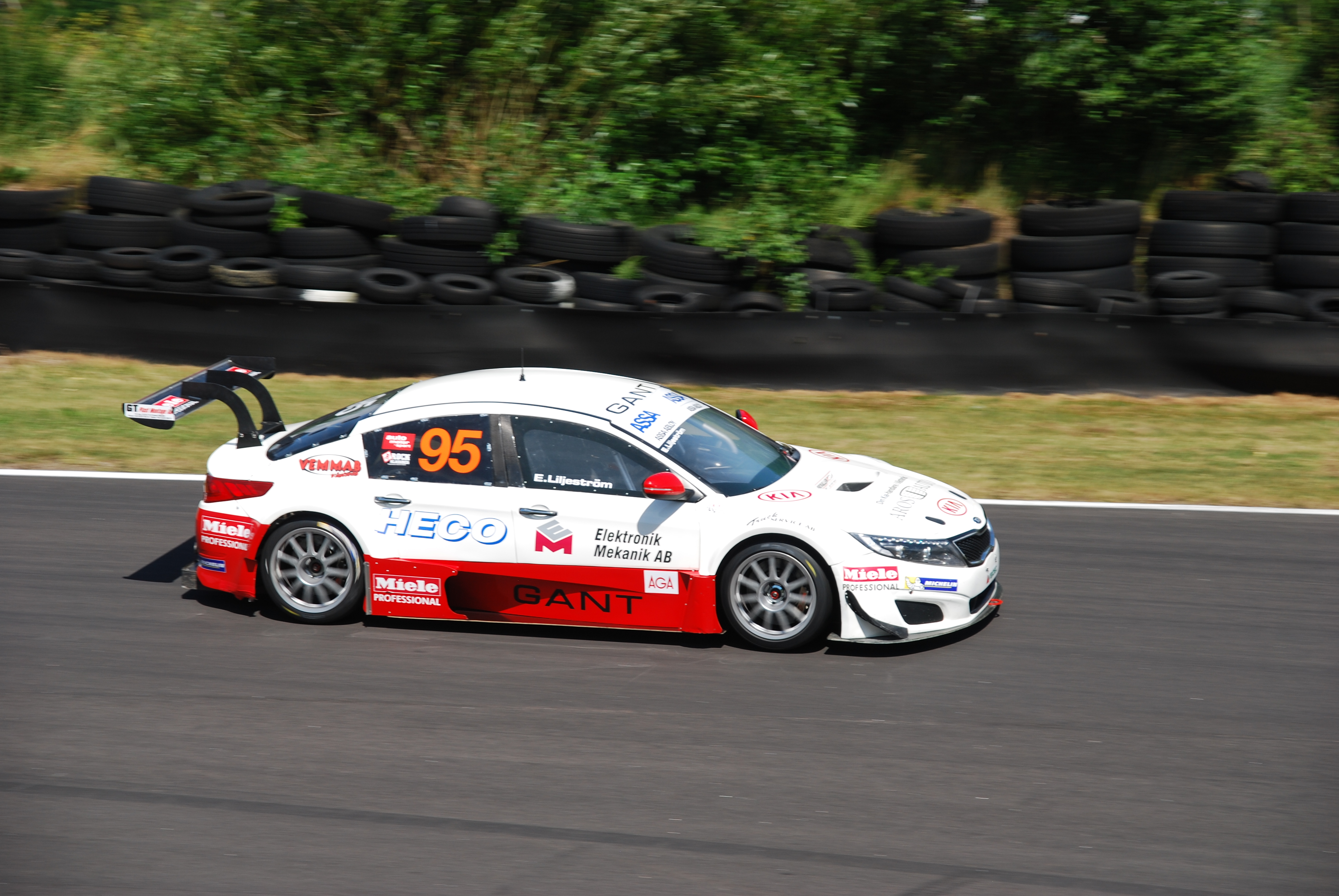 Emelie Liljeström driving for Team Kia at Falkenbergs Motorbana, during the fifth round of the 2015 Scandinavian Touring Car Championship (STCC) season.